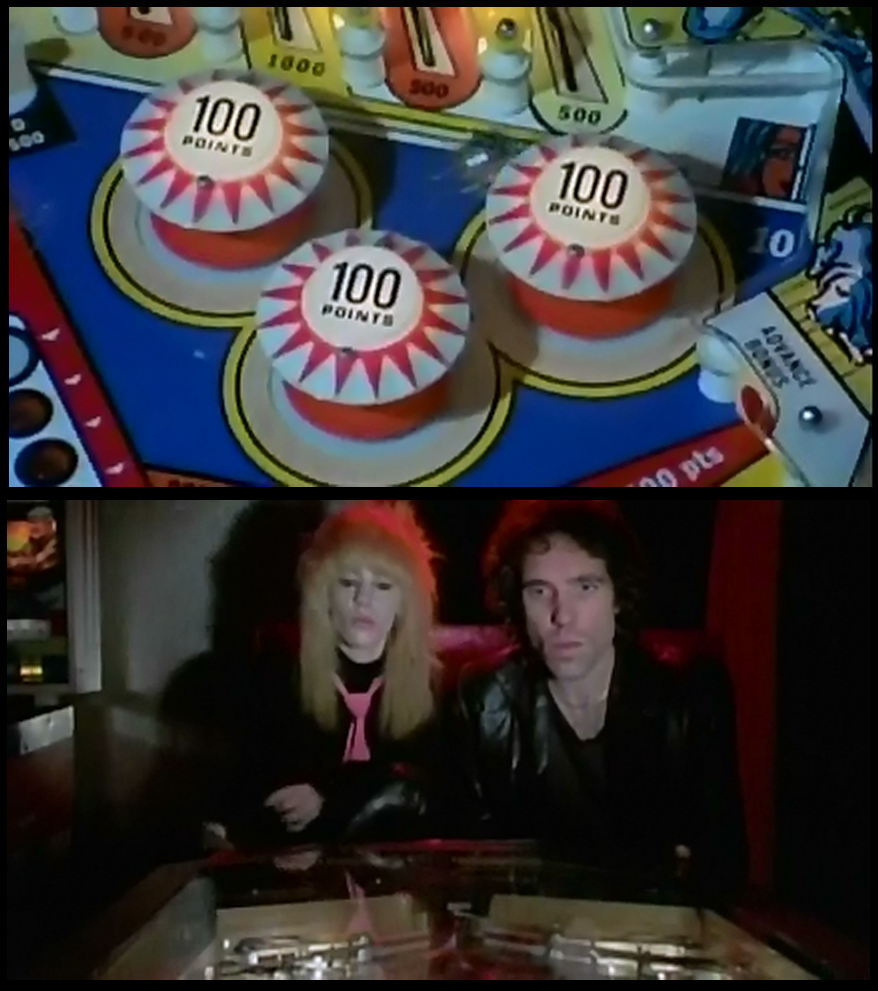 This is a comparison of two screenshots from the public domain film The Driller Killer, with the protagonist playing pinball. The shots are approximately five seconds apart. This is an example of using cutting to place the viewer into the POV of the protagonist. You can see another moment from the film here.